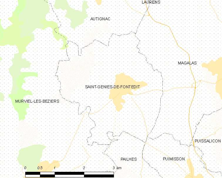 Map commune FR insee code 34258.png - Saint-Geniès-de-Fontedit